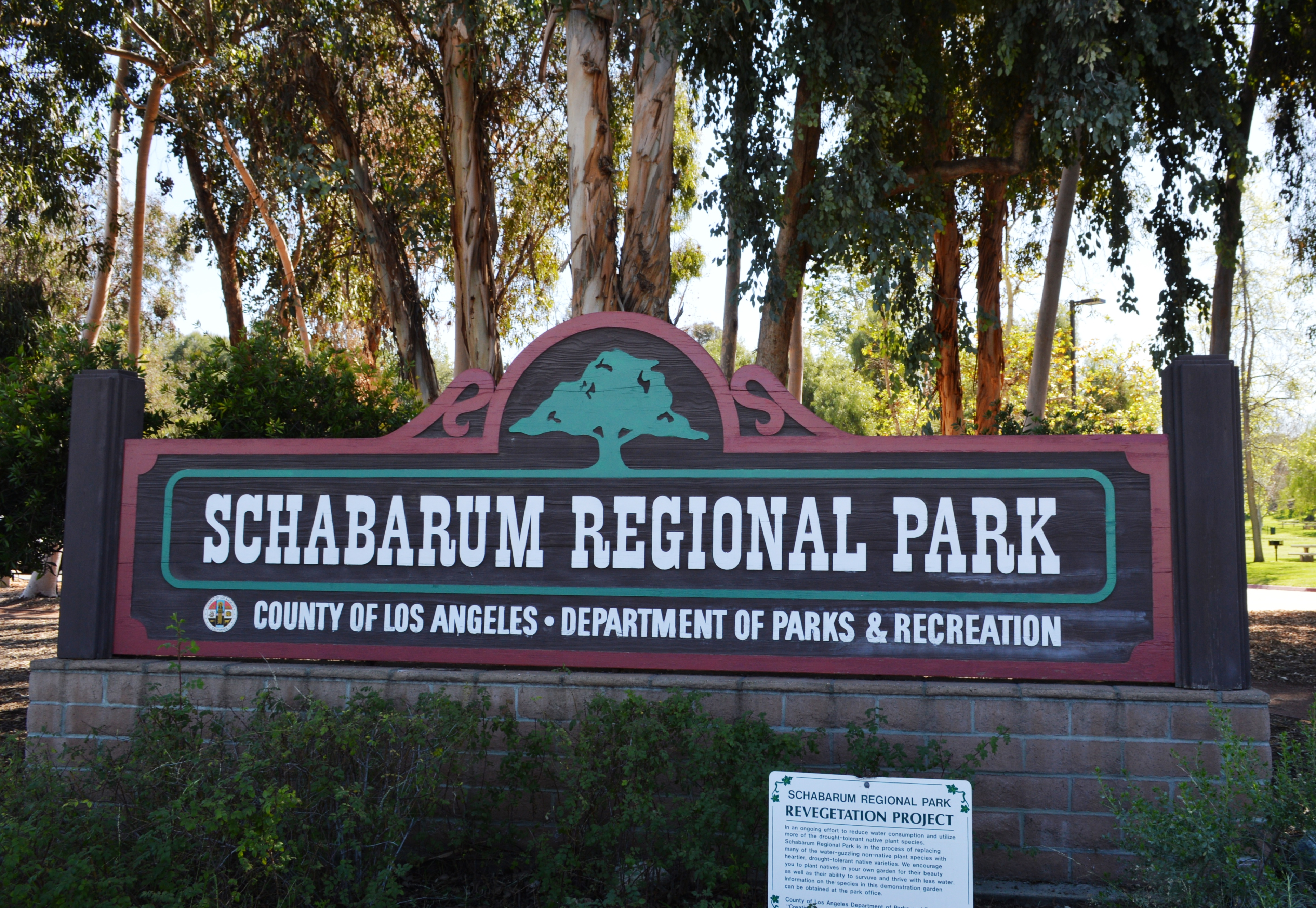 Park sign for Schabarum Regional Park — in Rowland Heights, eastern Los Angeles County, California.